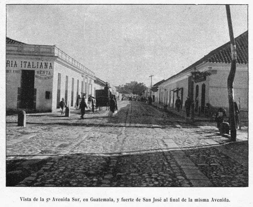 Fuerte